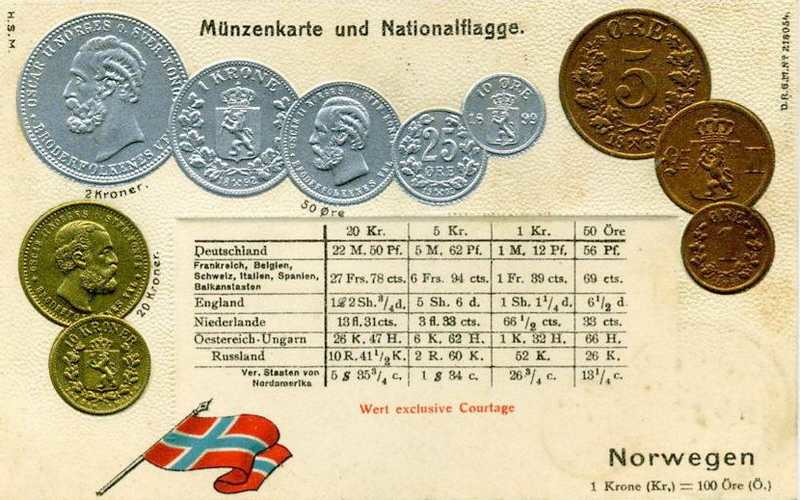 A postcard that depicts the coins that circulated at the time.